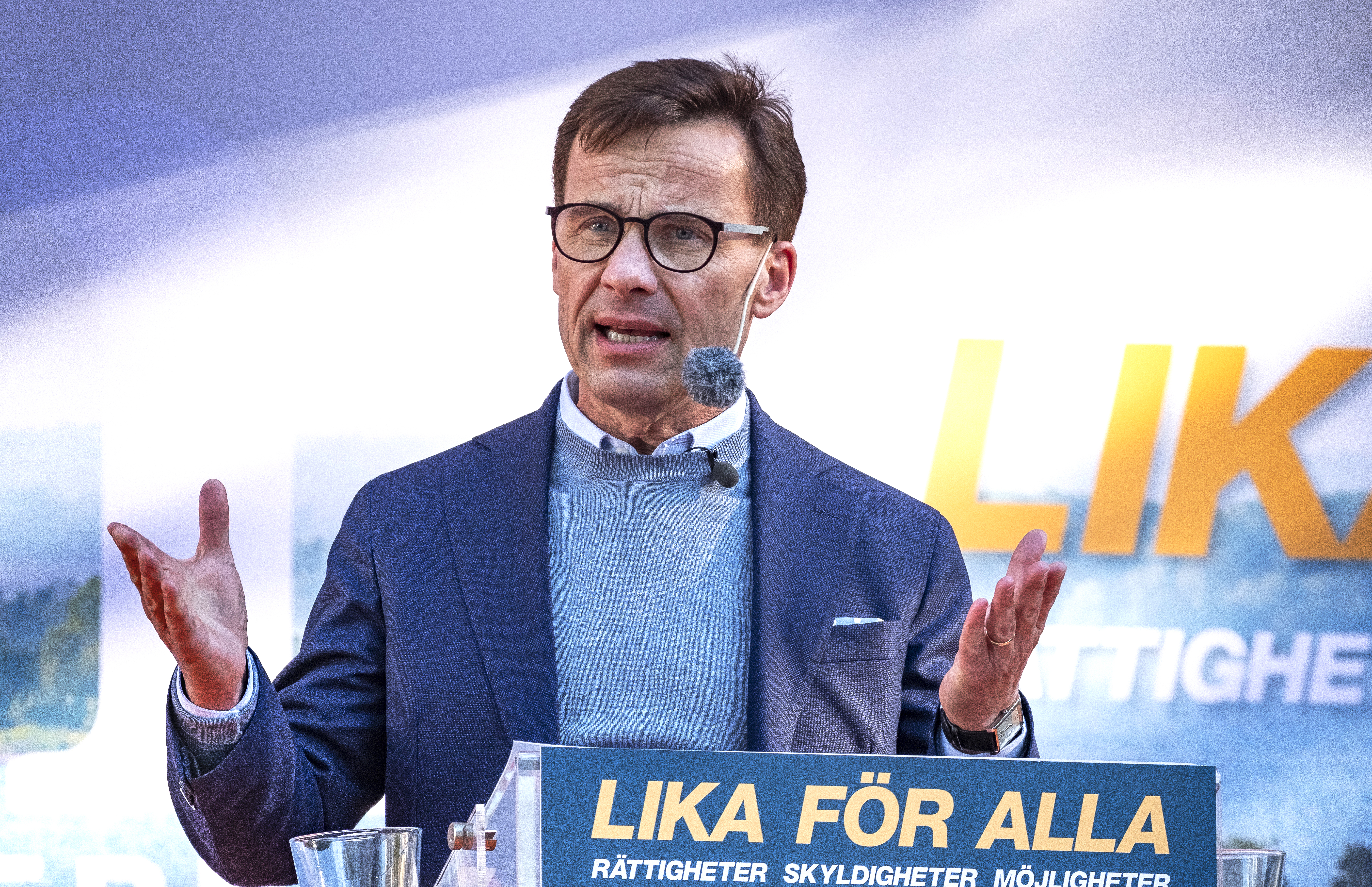 Ulf Kristersson, Moderaternas partiledare, vid sitt partiledartal sÃ¶ndag 1 juli vid Almedlasveckan i Visby pÃ¥ Gotland Photo: News Ãresund - Johan Wessman Â© News Ãresund - Johan Wessman (CC BY 3.0). Detta verk av News Ãresund Ã¤r licensierat under en Creative Commons ErkÃ¤nnande 3.0 Unported-licens (CC BY 3.0). Bilden fÃ¥r fritt publiceras under fÃ¶rutsÃ¤ttning att kÃ¤lla anges. .The picture can be used freely under the prerequisite that the source is given. News Ãresund, MalmÃ¶, Sweden News Ãresund Ã¤r en oberoende regional nyhetsbyrÃ¥ som Ã¤r en del av det oberoende dansk-svenska kunskapscentrat Ãresundsinstituttet.. .